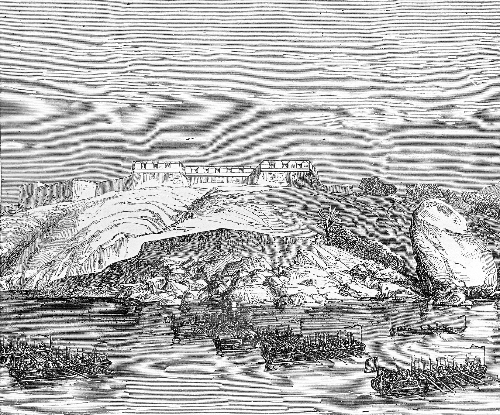 The French occupation of Quang Yen, November 1883